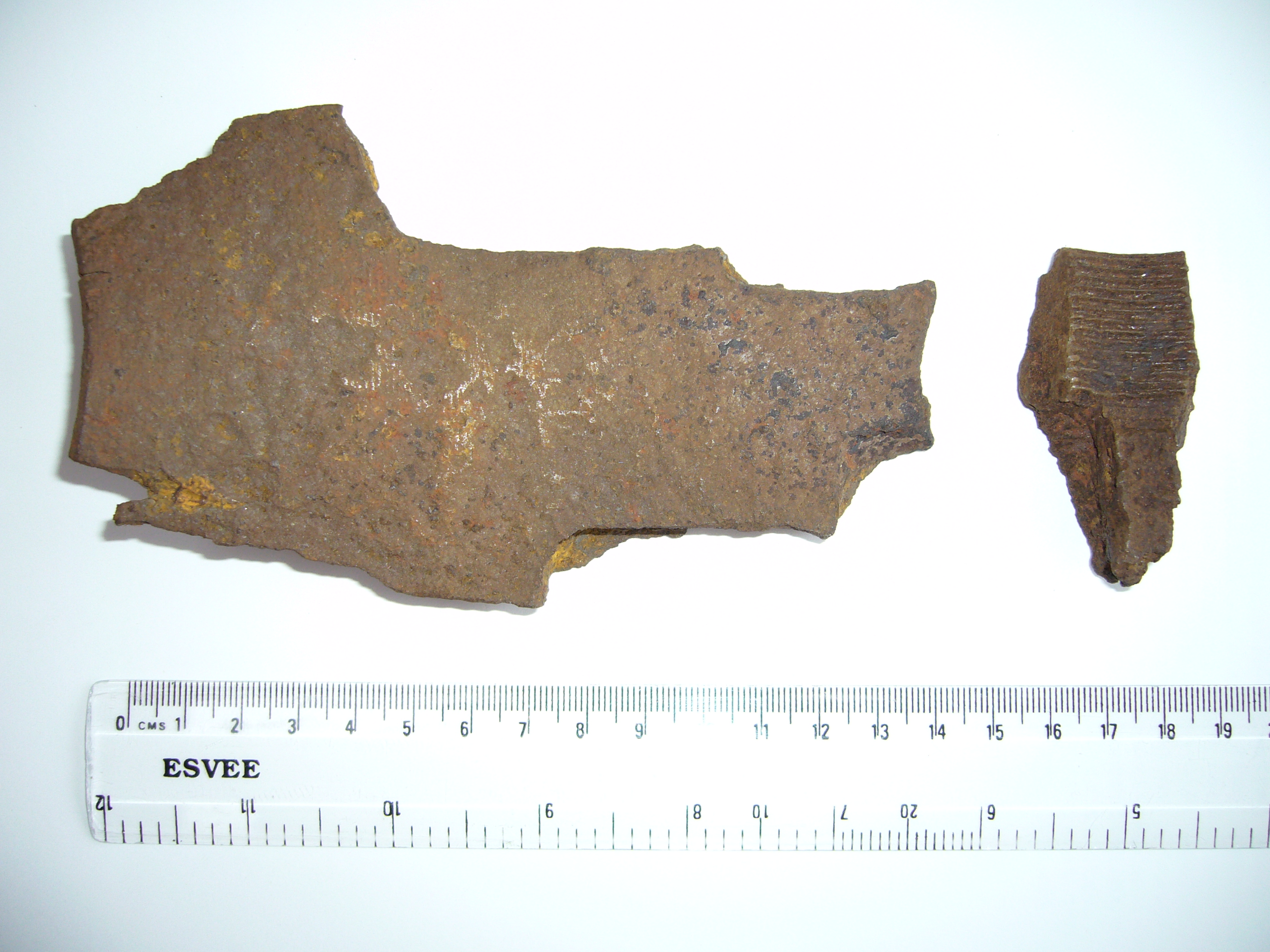 Steel fragments of high-explosive shells, dating from the Battle of the Somme in 1916. Found on the battlefield. The original shape of the artillery shells before detonation can be made out e.g. the smaller fragment on the right came from the nose of the shell, and the screw threads where the fuze was inserted is clearly visible. Note that, technically, these are artillery shell fragments. However, many people would refer to it as shrapnel. Shell splinters come in all sizes, from relatively large pieces as seen in this photograph, right down to tiny shards the size of a sewing needle. All have the ability to inflict death or severe injury.